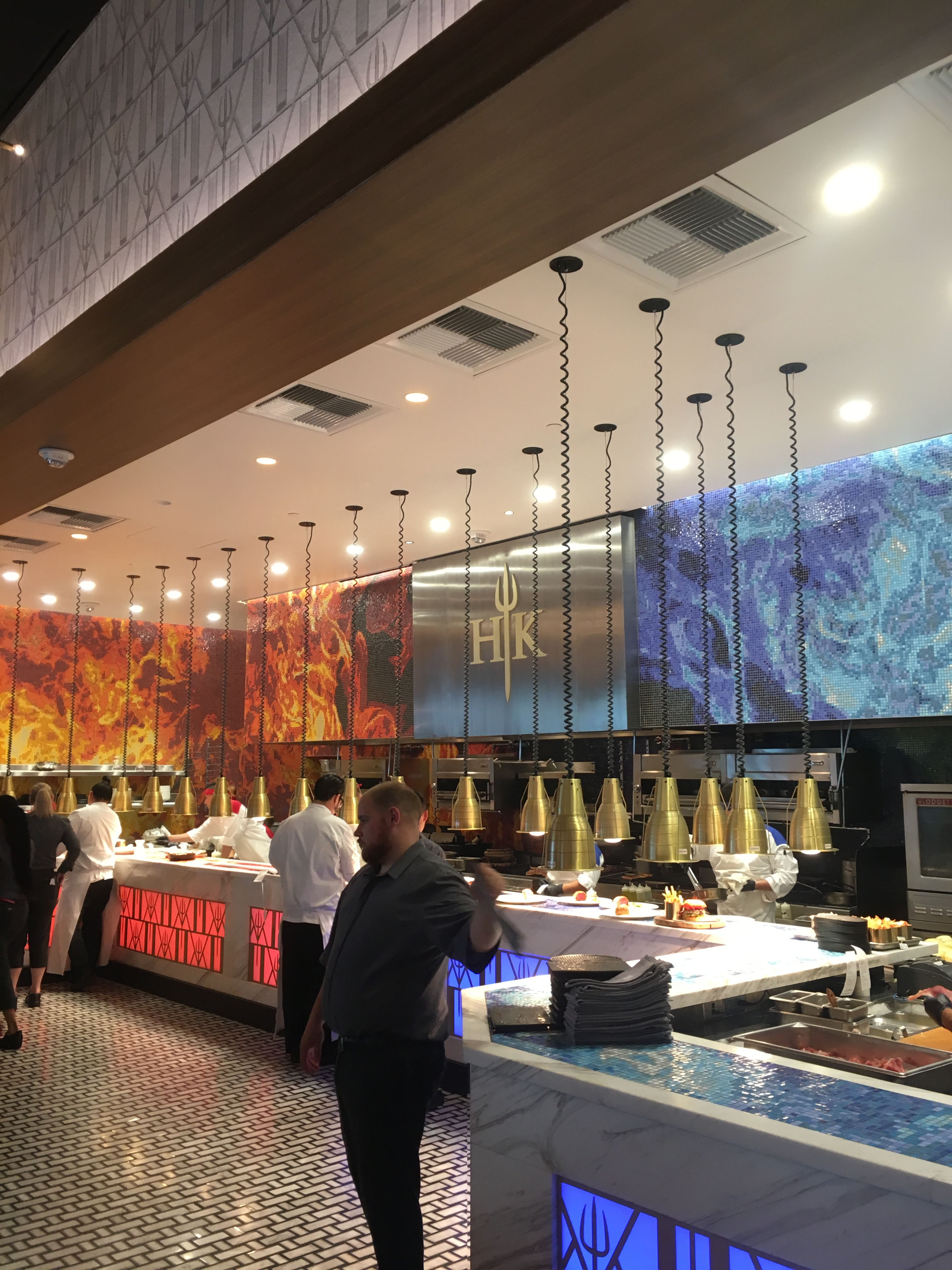 Hell's Kitchen in Las Vegas, Nevada